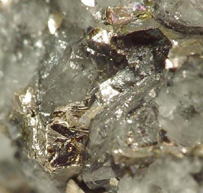 Arsenic Locality: St Andreasberg, St Andreasberg District, Harz Mts, Lower Saxony, Germany (Locality at ) Size: thumbnail, 2.1 x 1.7 x 1.2 cm Native Arsenic This specimen is composed of many sharp lustrous Arsenic crystals 1 or 2 mm in size, intergrown but clearly visible on matrix. Both the luster and sharpness are actually superior to the Arsenic of more famous localities around the world.